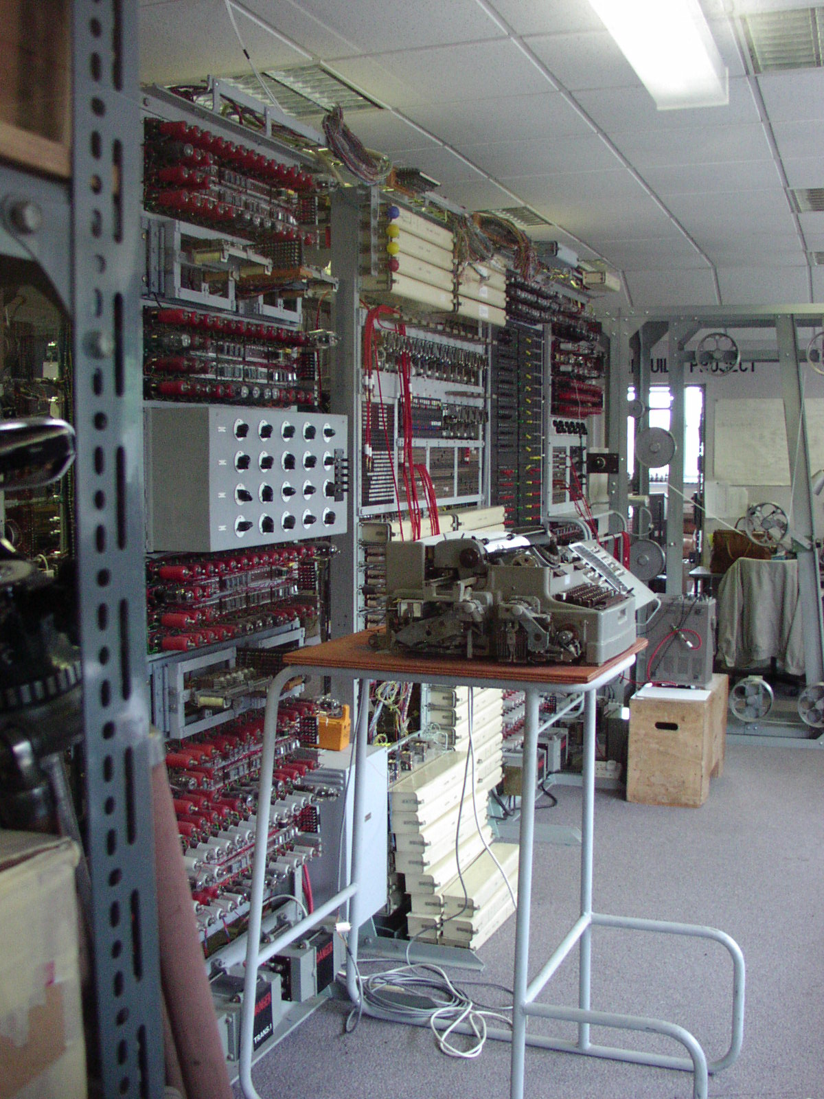 Description A rebuild of a Colossus Mk II by Tony Sale and team, located at Bletchley Park museum. DateSourceHereAuthorTom YatesPermission (Reusing this file) Author agreed to license image under the terms of the GFDL after an email exchange with User:Matt Crypto. -----BEGIN PGP SIGNED MESSAGE----- Hash: SHA1 i license the photos with the following sha1sums: 8ba64b6e669db314d662c62b63ec33bef10a6f16 p5120012.jpg 63407ea1500c8d635a7b28046276107f7e55ee4c p5120015.jpg 7f03bb6774fef95d58811ecbe5a215c2fc7b4e23 p5120018.jpg 219274644fb6ce89029c68811cad9813fea3e755 p5120021.jpg reference copies of which can currently be found at: nonexclusively, to you and the world, under the terms of the GFDL, version 1.2 or at your discretion any later version published by the Free Software Foundation, with no invariant sections nor front nor back matter. i certify that rights in these photos are mine to assign. Tom Yates -----BEGIN PGP SIGNATURE----- Version: GnuPG v1.2.4 (GNU/Linux) iD8DBQFB47dJePtvKV31zw4RArX7AJ98D3JGDQe1jBWdowGXcjwiB805iwCdFy2h oMtQy77Qlb1YWsthnv1Ps/I= =8yJJ -----END PGP SIGNATURE----- A rebuild of a Colossus Mk II by Tony Sale and team, located at Bletchley Park museum.